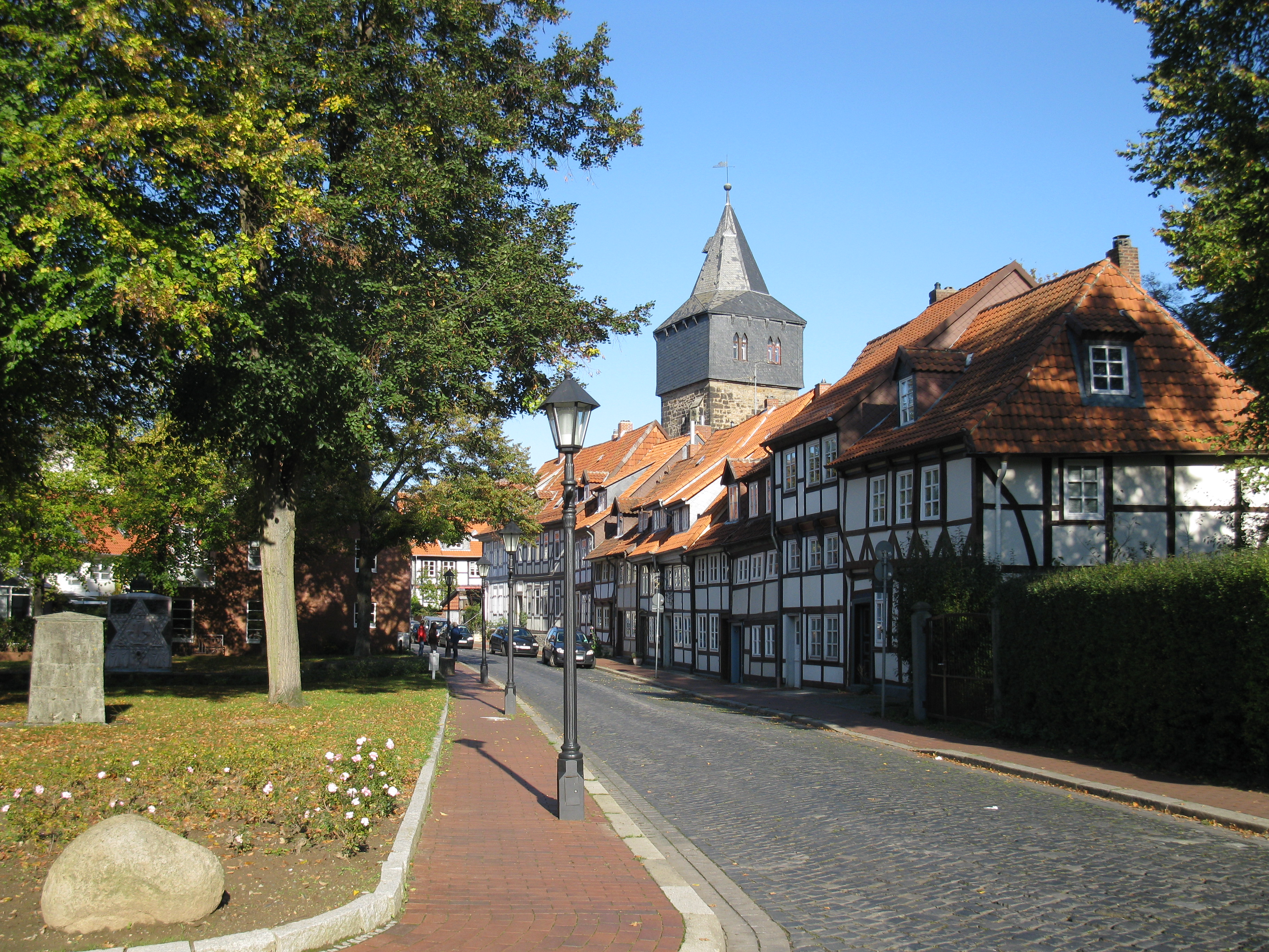 Lappenberg Street, former Jewish part of Hildesheim